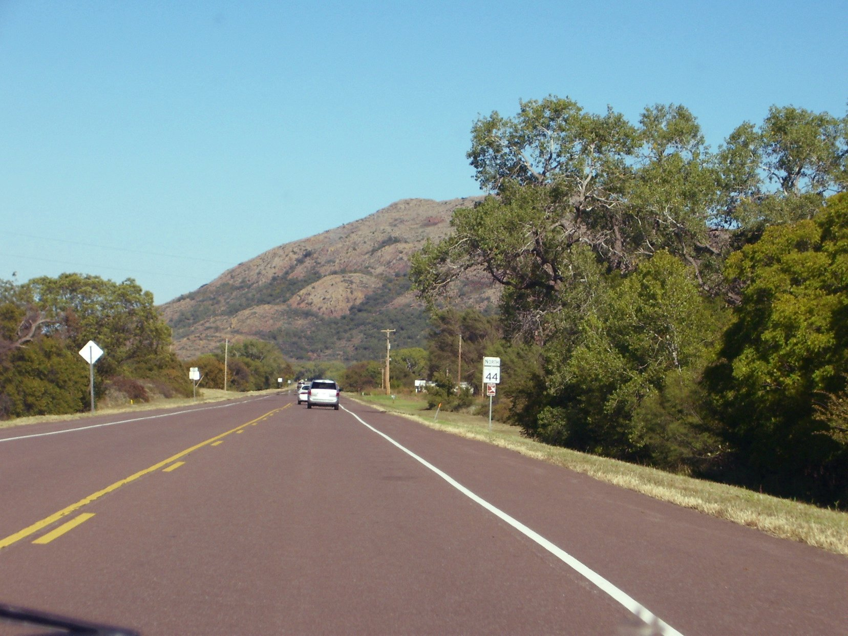 The northbound beginning of State Highway 44 in the Quartz Mountains of Greer County, Oklahoma.